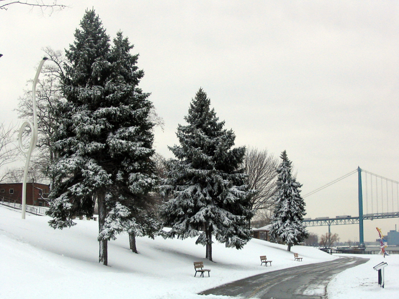 Riverfront walk, with a little view of the Ambassador bridge in the corner !